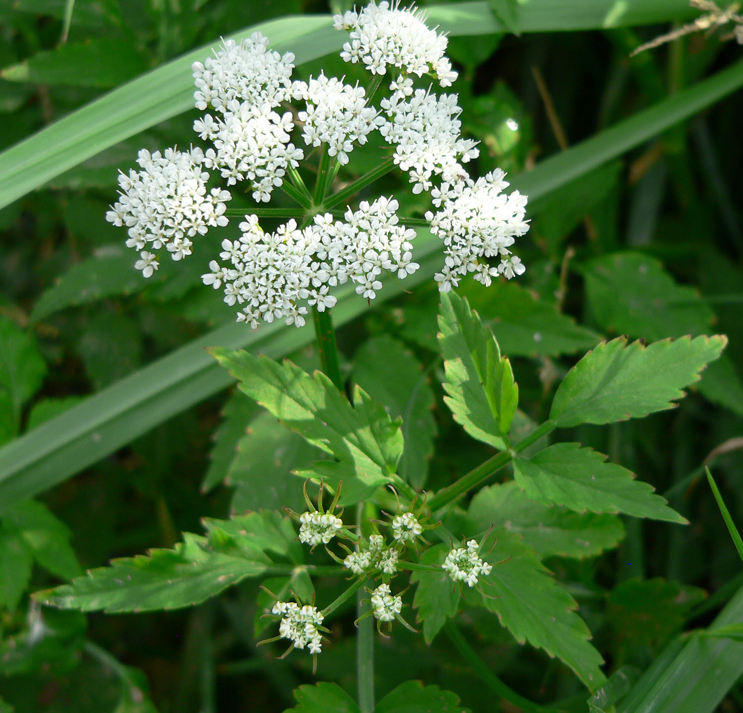 Berula erecta at Red Spring, Calico Basin, Spring Mountains, southern Nevada (elev. about 1100 m)